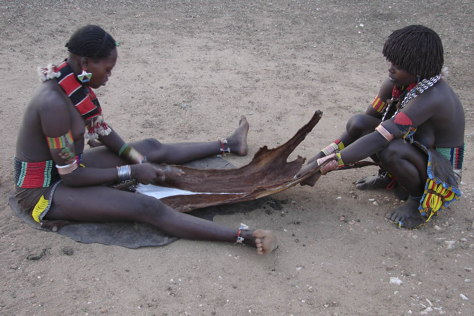 Leather : Hamer village (Ethiopia)